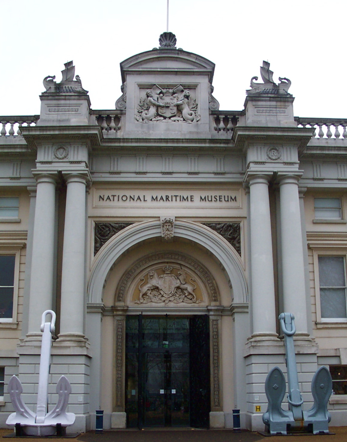 The front entrance of the National Maritime Museum in London.